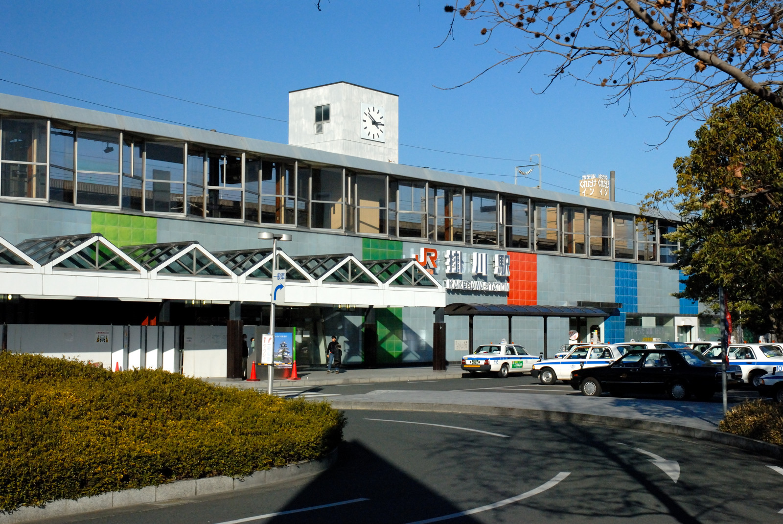 Kakegawa Station of Central Japan Railway Company, Shizuoka Japan. (South view)